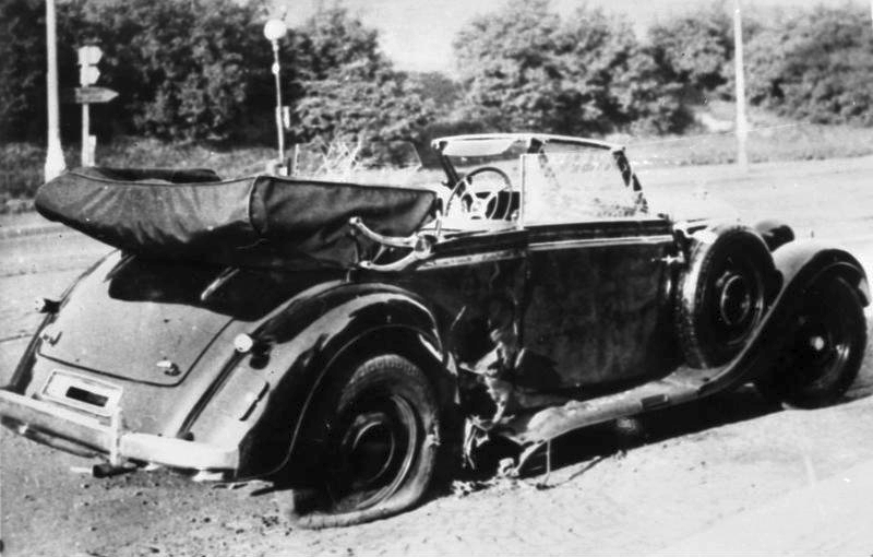 Reinhard Heydrich's car (a Mercedes-Benz 320 Convertible B) after the 1942 assassination attempt in Prague. Heydrich later died of his injuries.